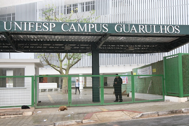 Escola De Filosofia Letras e Ciências Humanas Da Universidade Federal De São Paulo/UNIFESP, Campus Guarulhos